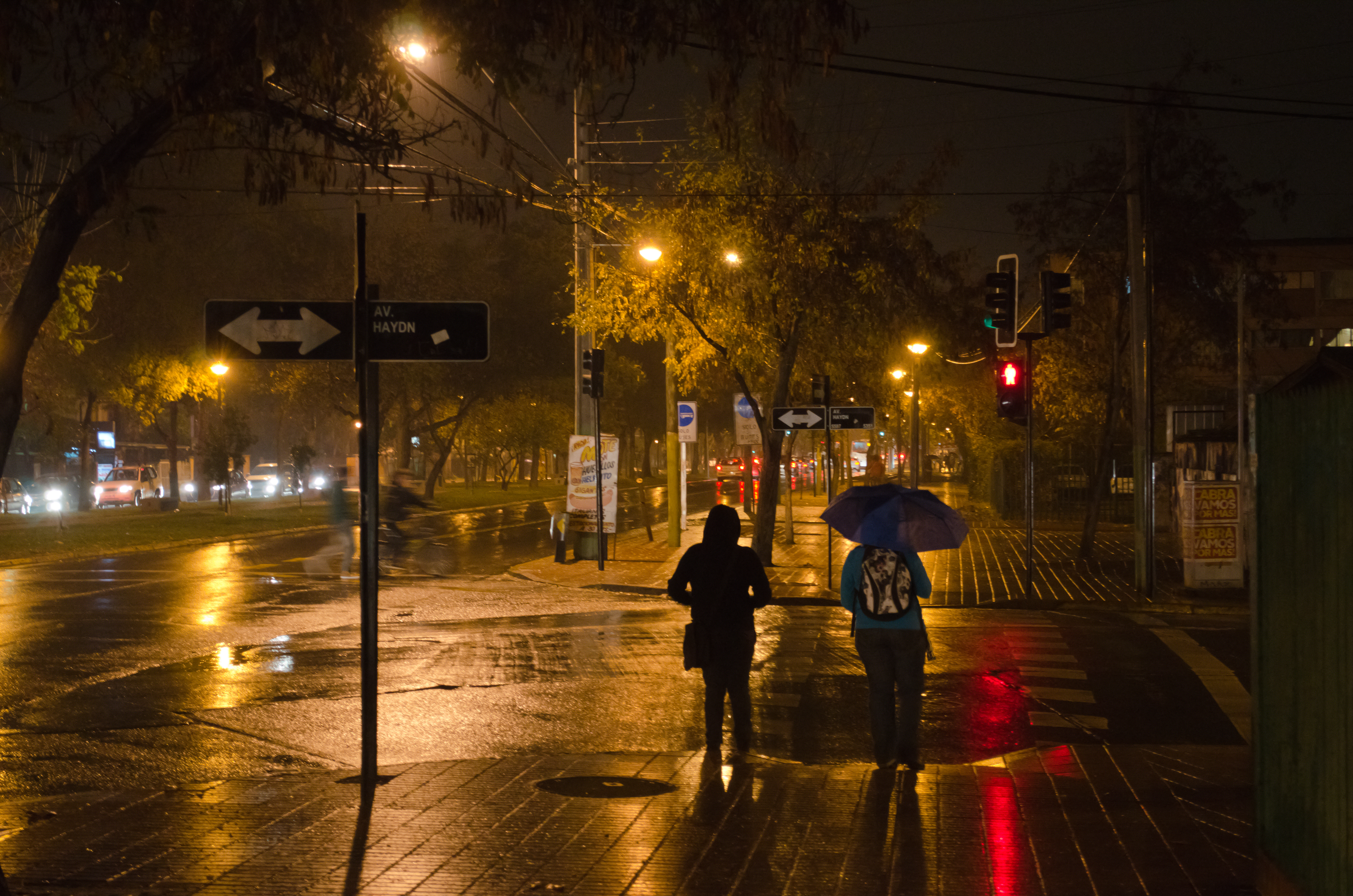 rain! Av. Depratamental con Av. Haydn